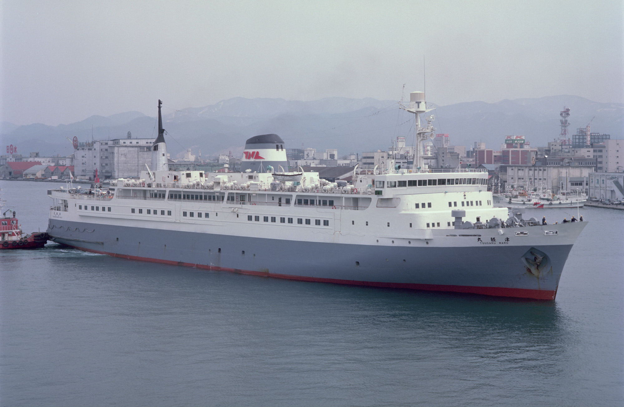 The Japanese National Railways train ferry between Aomori and Hakodate MS TSUGARU MARU 2 arriving at Aomori port